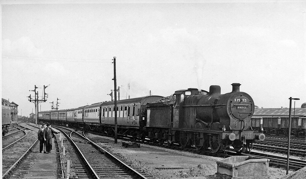 Returning holiday express to Leicester arriving at Peterborough East Station. View eastwards, towards March, Ely etc.; ex-Great Eastern Ely - March - Peterborough main line. This was the 12.35 Sheringham - Leicester express, another train that in earlier years had run more directly over the Midland & Great Northern route through Bourne to Saxby. (See TL1899 : Derby - Lowestoft holiday express approaching Peterborough North, where this ex-Midland 4F 0-6-0 (No. 44013) was on its way east).